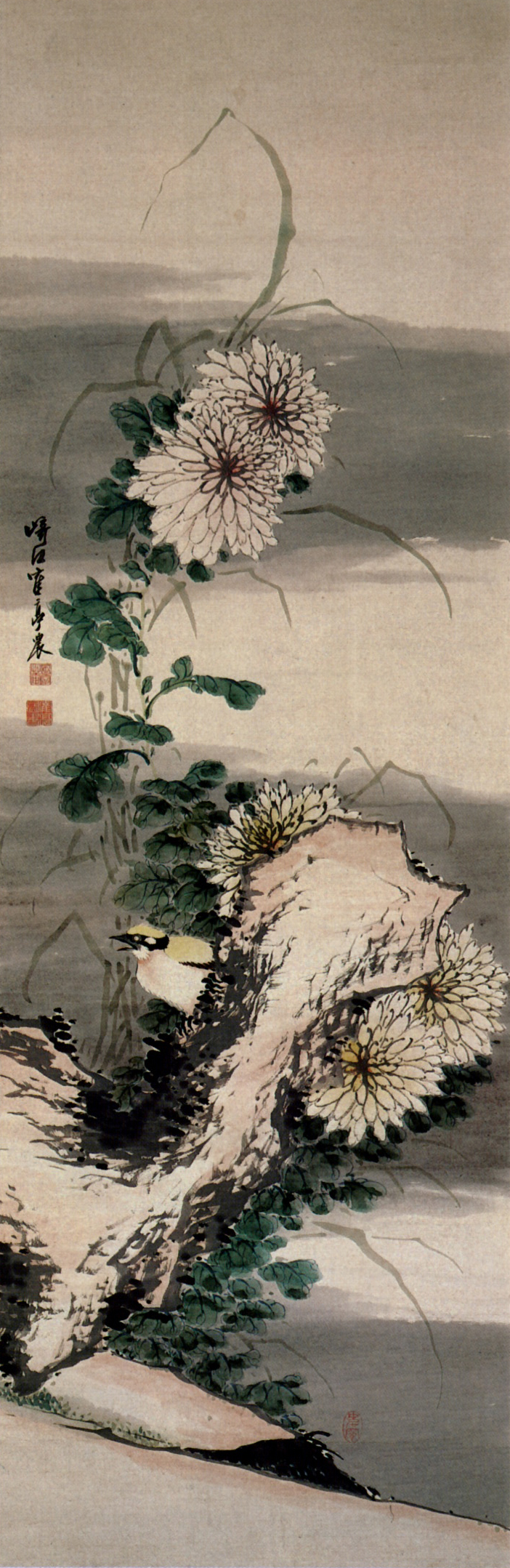 Yellow Bird and Chrysanthemum on the rock,Kakutei,Hanging scroll,light color on paper